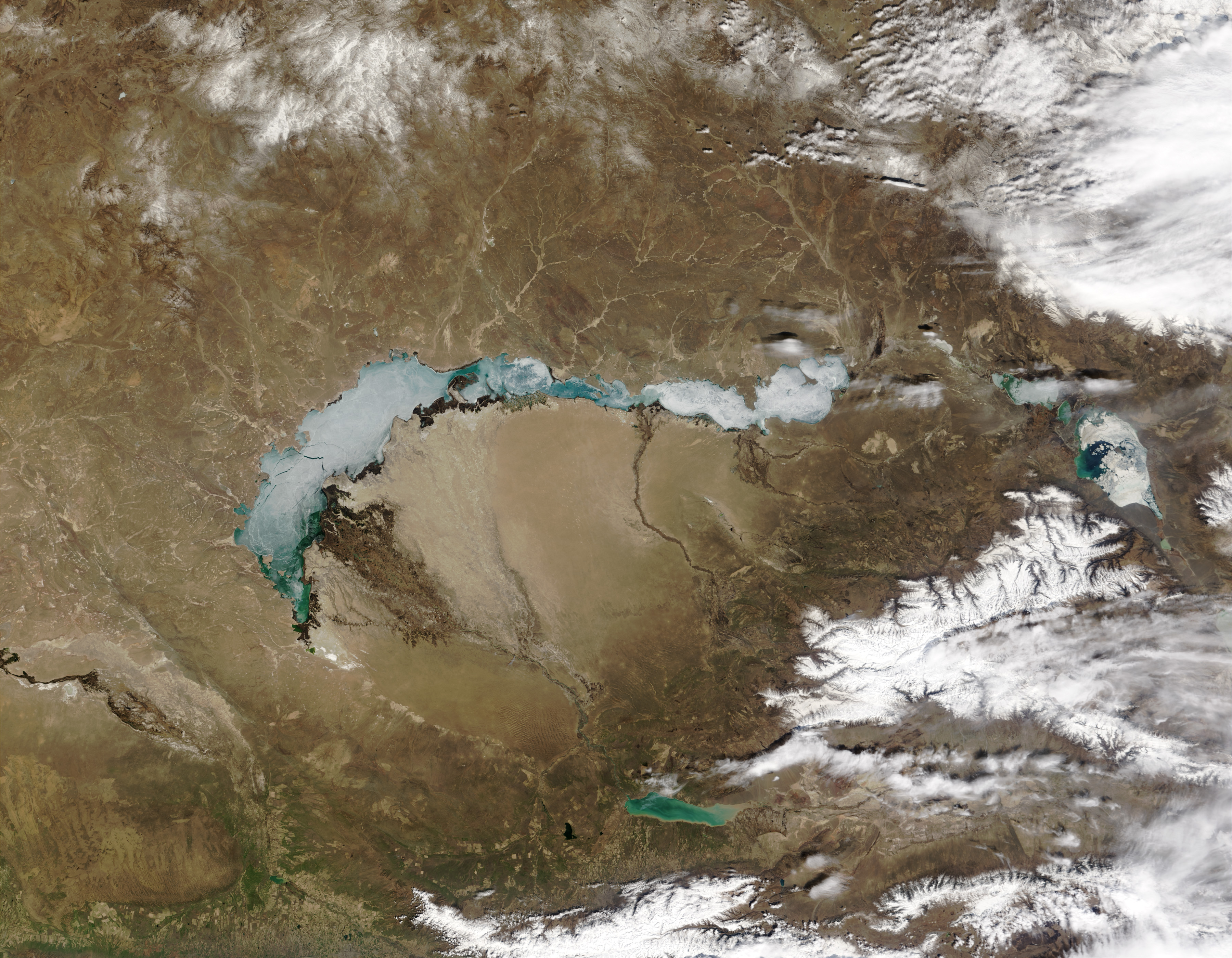 In only a week the ice covering Lake Balkhash, in eastern Kazakhstan, melted over almost all of the lake’s 18,000 square kilometer surface area. On April 11 large cracks were visible in the ice on the western half of the lake, and the water near river deltas was ice-free.